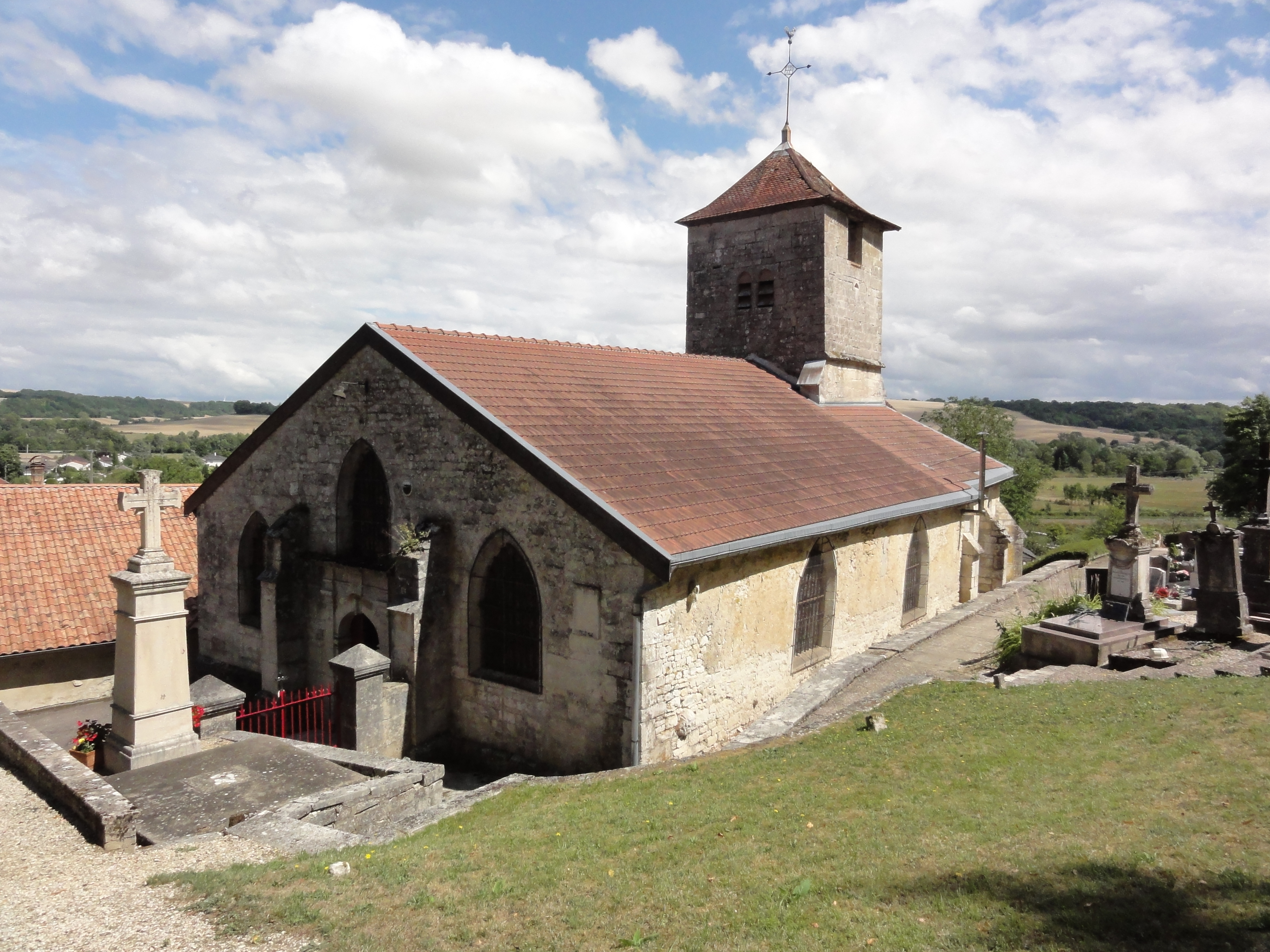 Givrauval (Meuse) église Saint Quentin